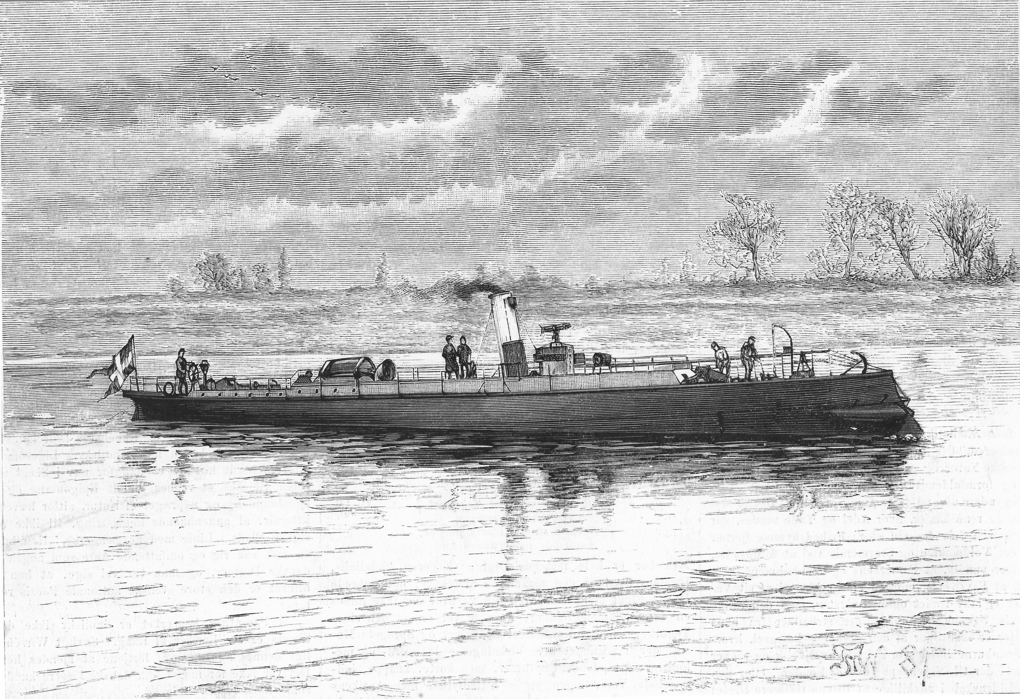 This drawing by Frederik Winther appeared in the Danish weekly Illustreret Tidende, January 1, 1882, page 179. It showed the new Danish Torpedo boat No. 6 (later Sværdfisken), and the boat was described on page 177. At forsvarsgalleriet.dk it is described as No. 4, but that is a mistake. No. 4 was from 1879 and had a different bow with only one torpedo tube.